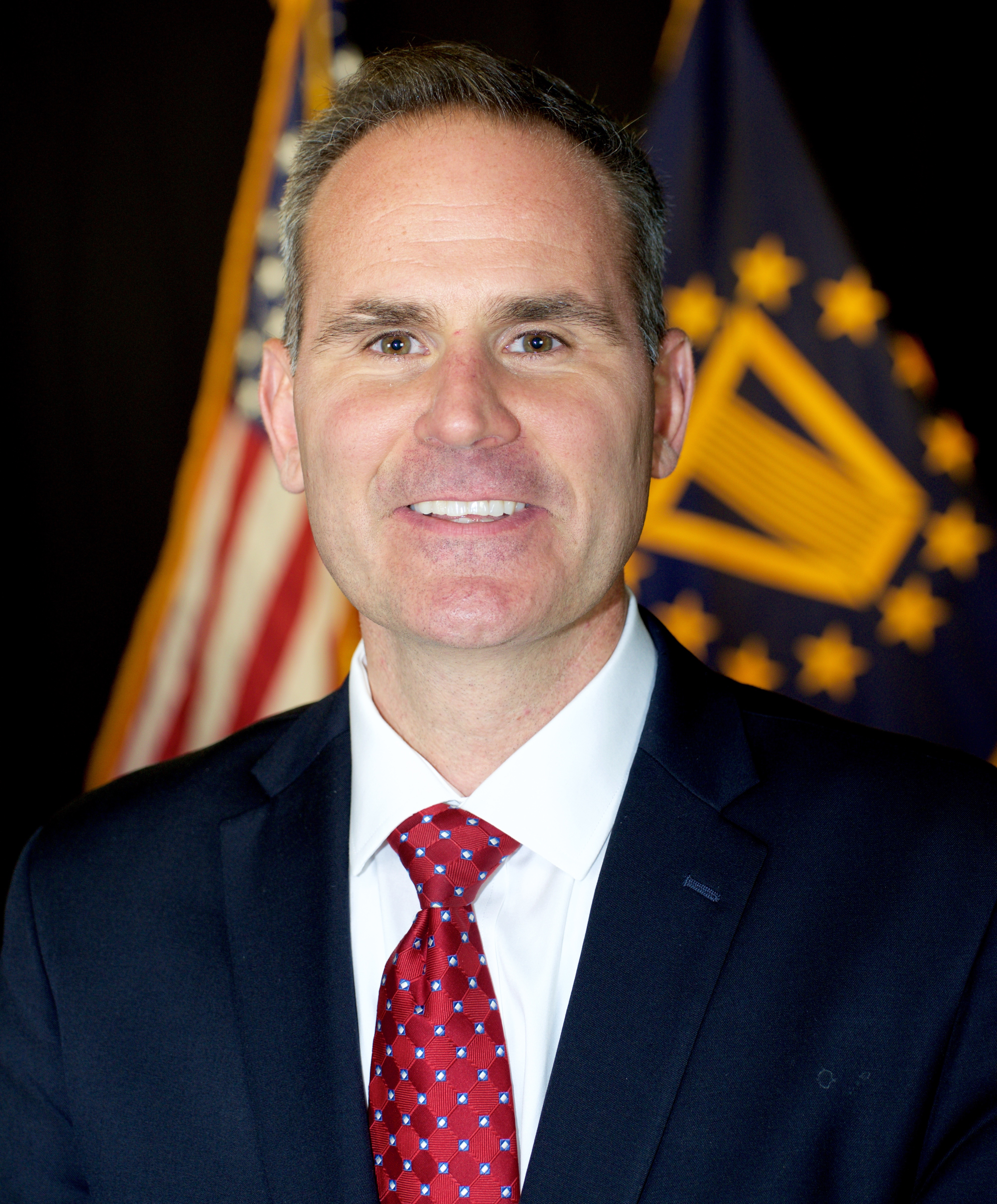 Chris Pilkerton official SBA photo